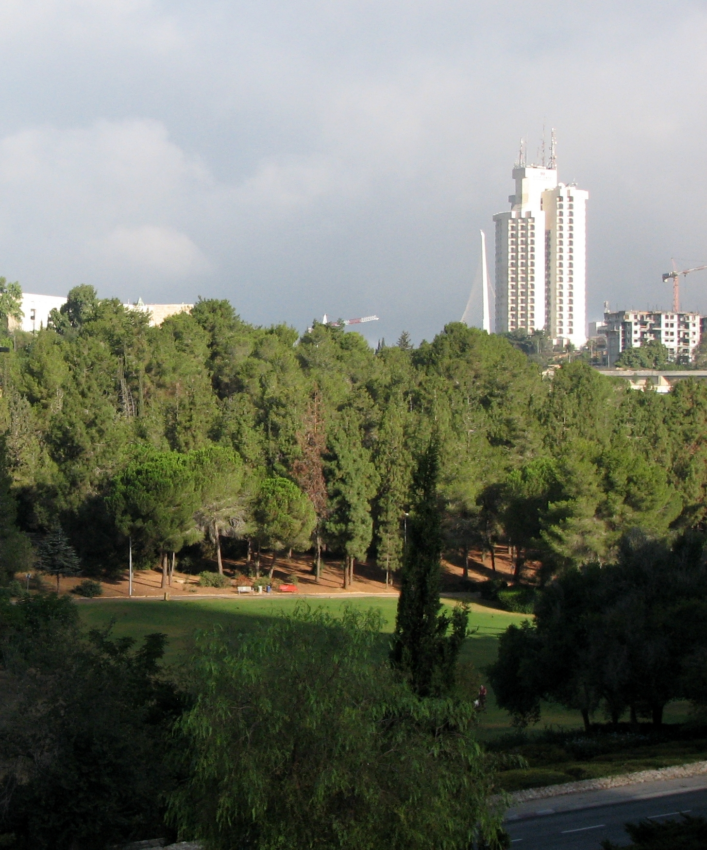 Sacher Park in Jerusalem, Israel, view from Kiryat Wolfsohn